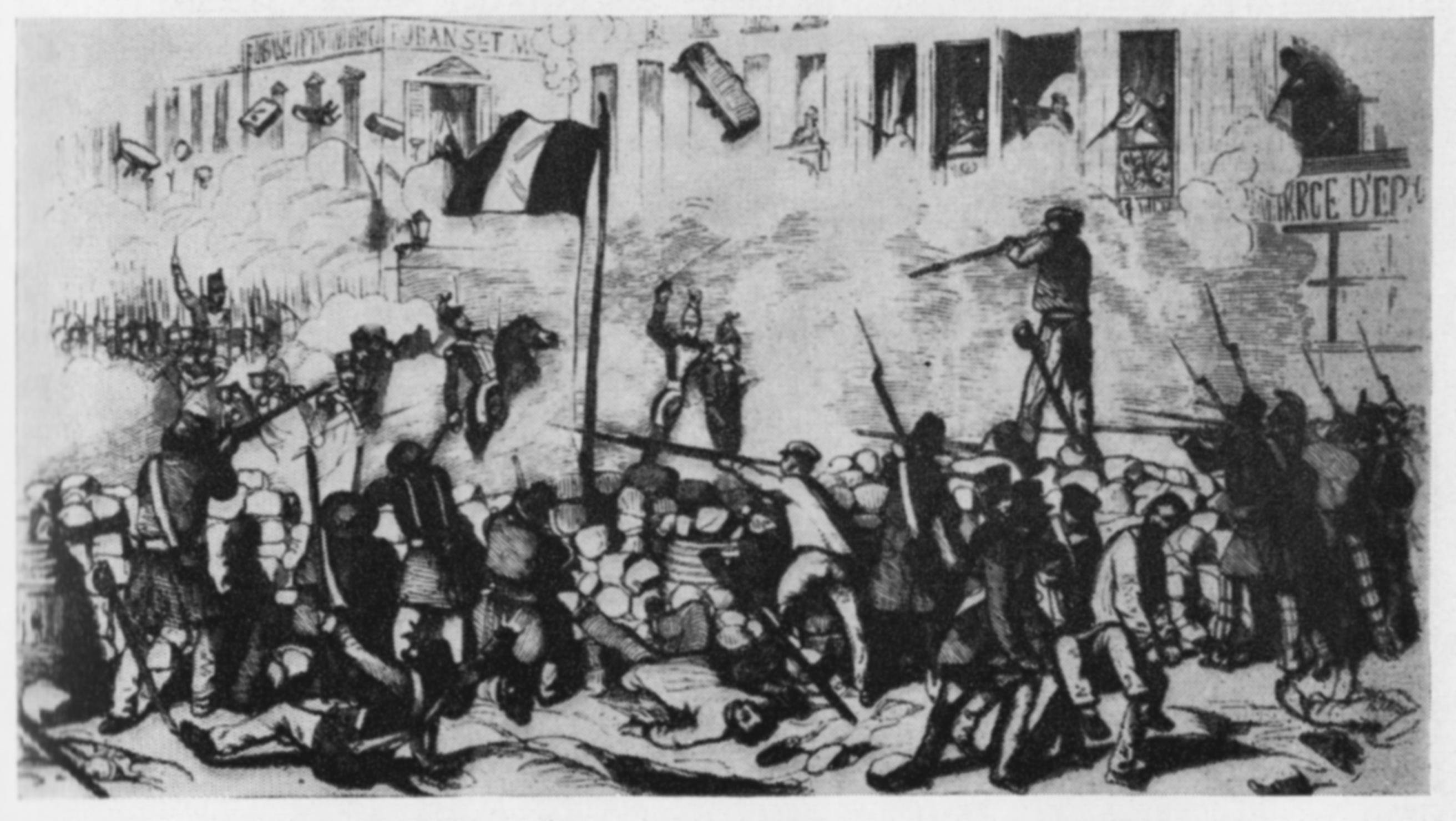 painting of a barricade in Paris, 1848